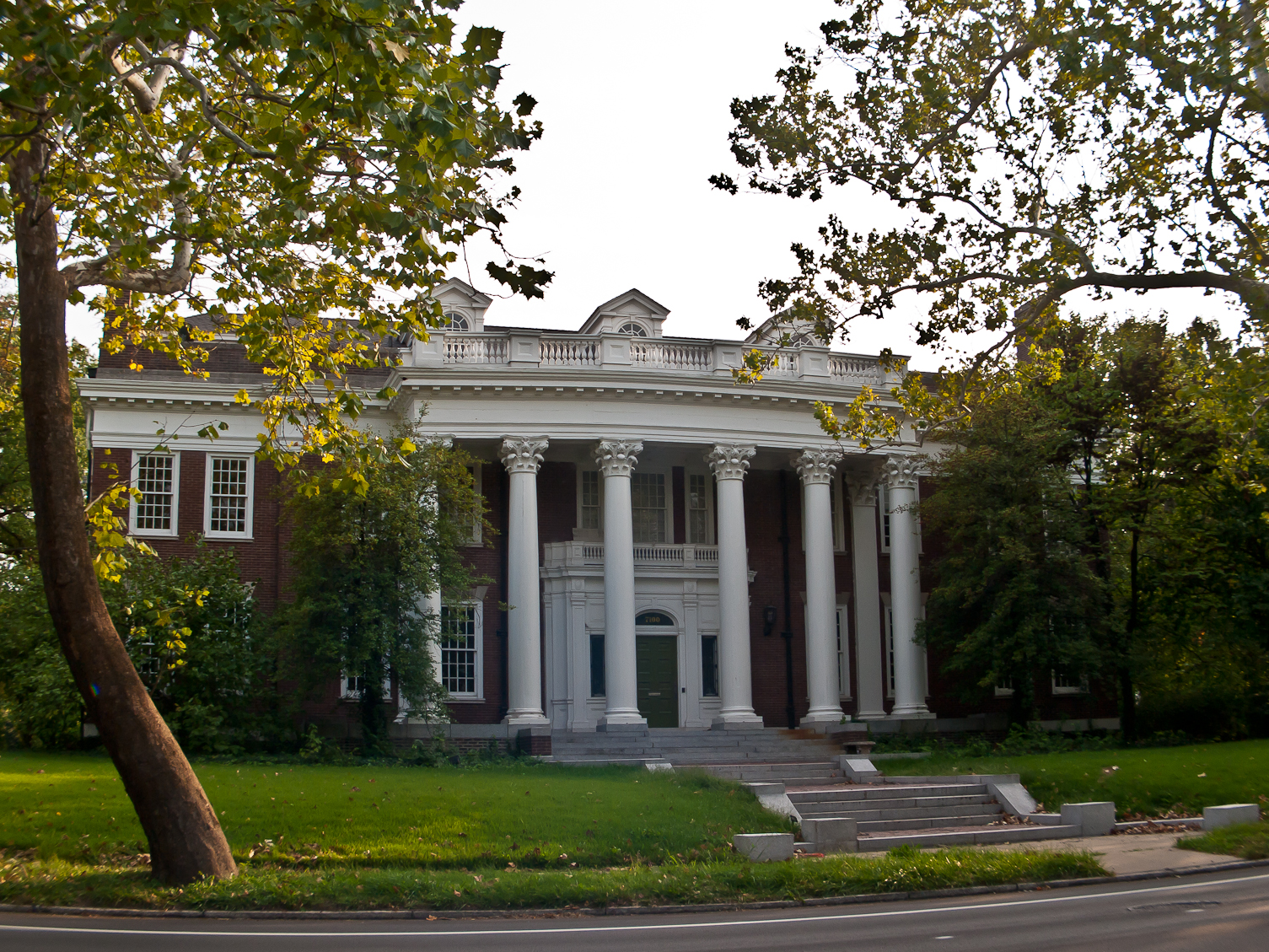 Theodore Link Historic Buildings